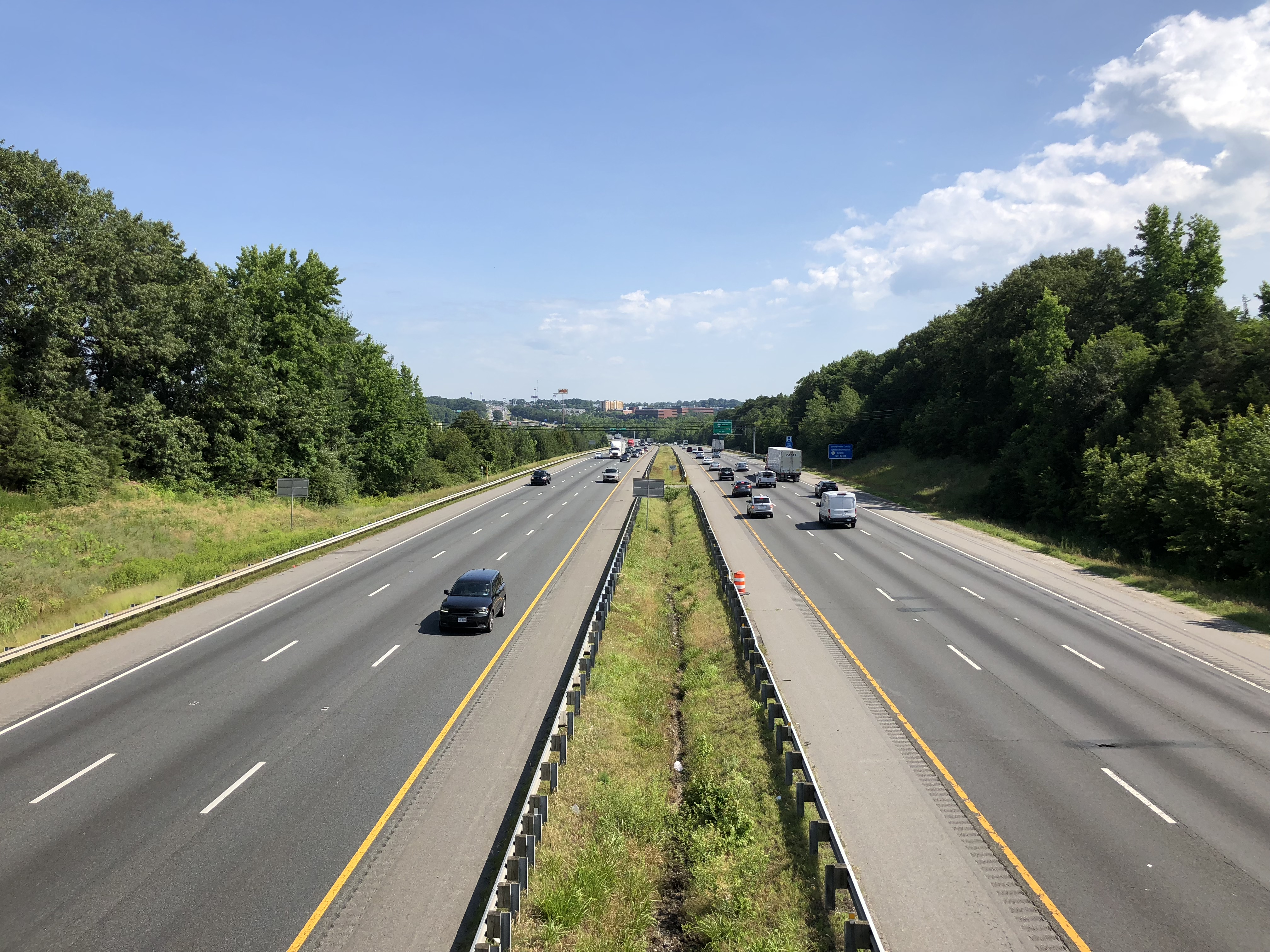 View north along Interstate 95 from the overpass for U.S. Route 17 (Mills Drive) in Fourmile Fork, Spotsylvania County, Virginia